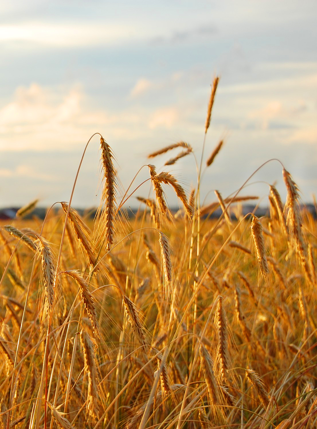 rye (secale cereale)